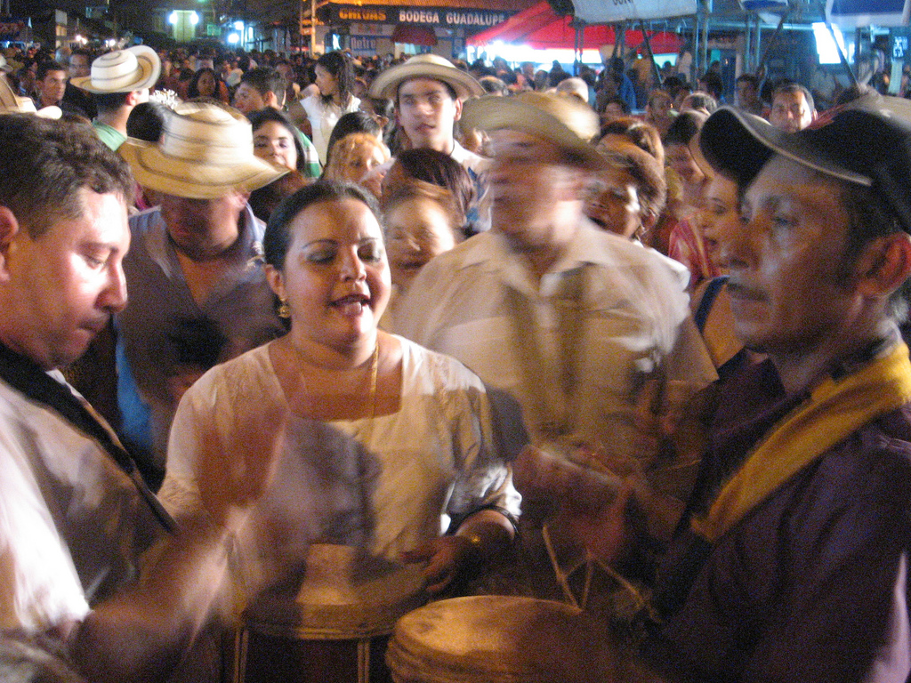 Tamborito in las Tablas